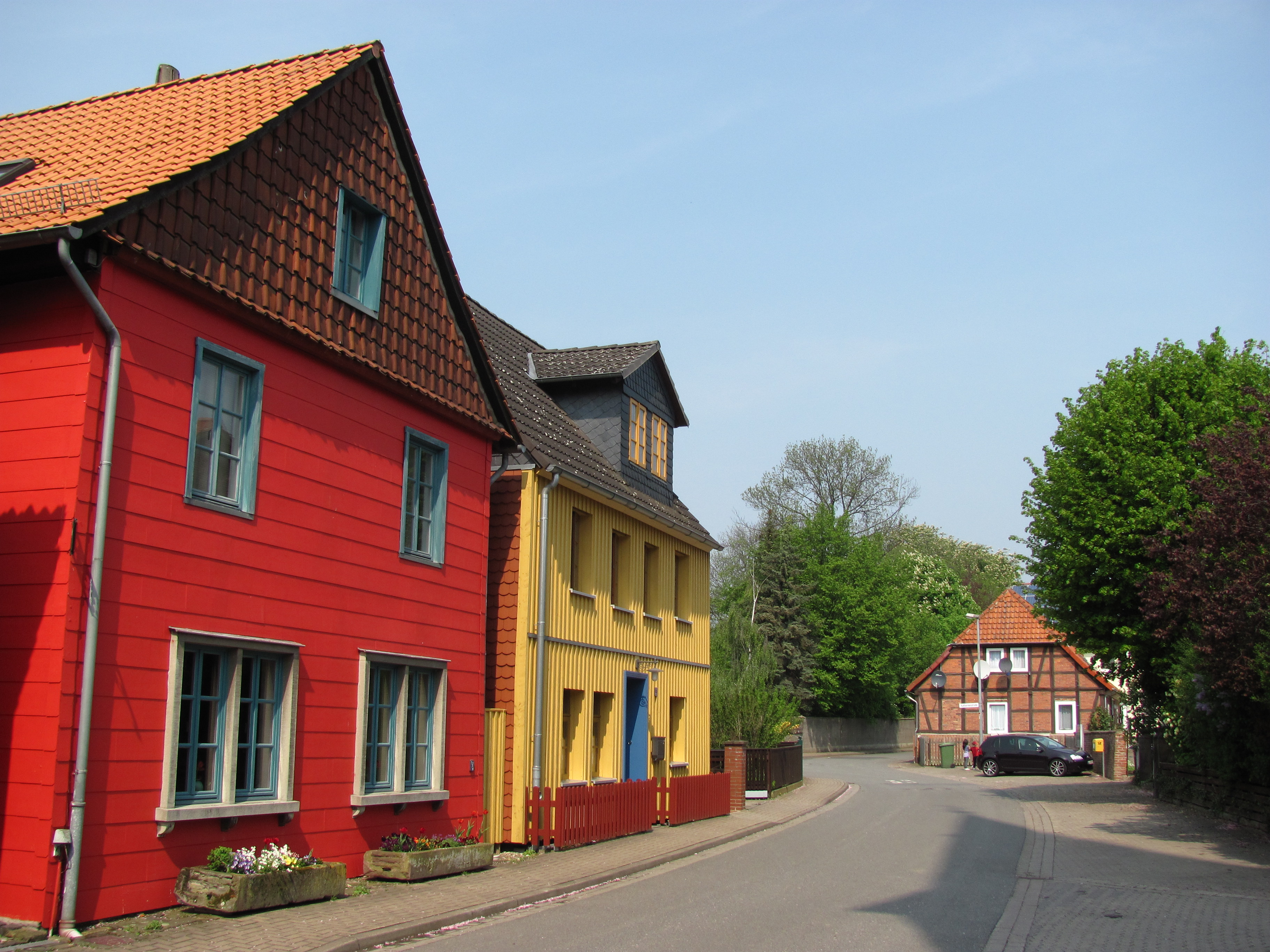 Historic houses in Turmstrasse, Schellerten-Bettmar, Lower Saxony, Germany.